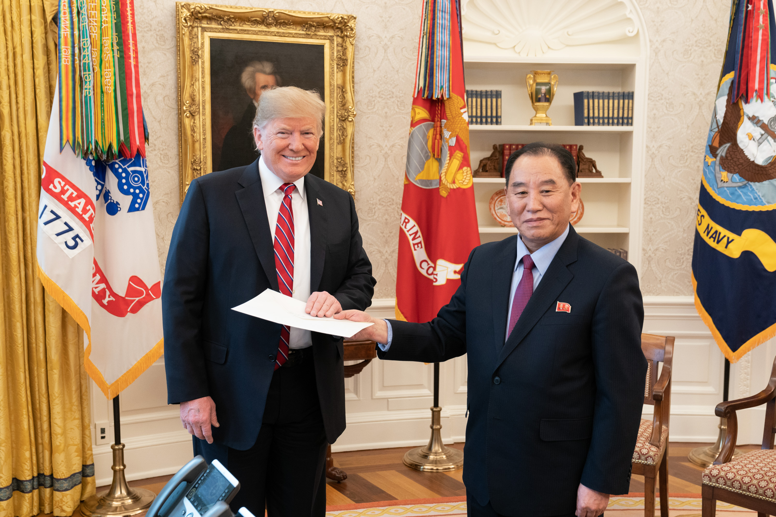 President Donald J. Trump his presented with a letter from Chairman Kim Jong Un by Kim Yong Chol, Vice Chairman of the Worker’s Party of Korea and Chairman of the Korea Asia Pacific Peace Committee Friday, January 18, 2019, in the Oval Office. (Official White House Photo by Shealah Craighead)